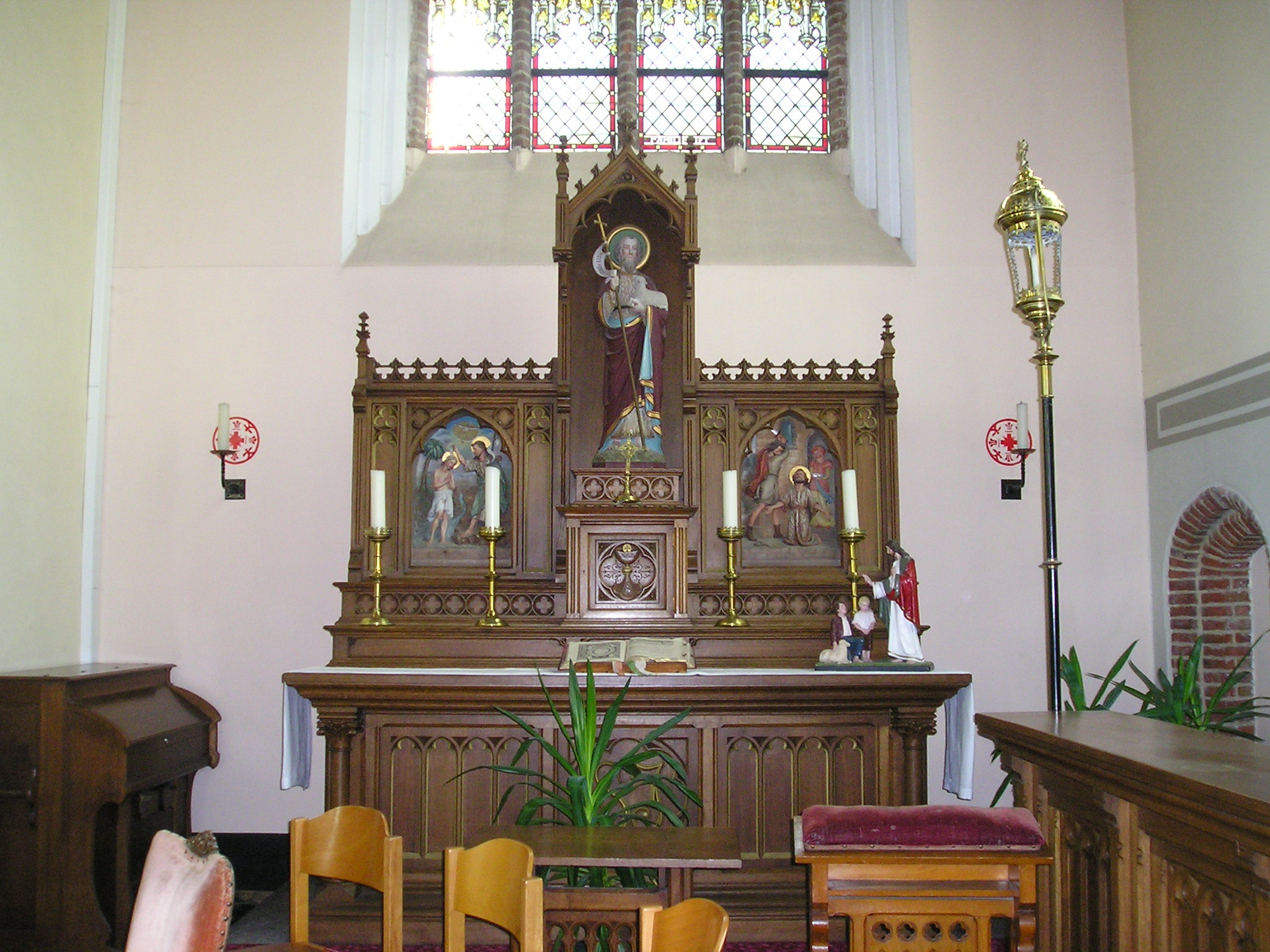 Dranouter